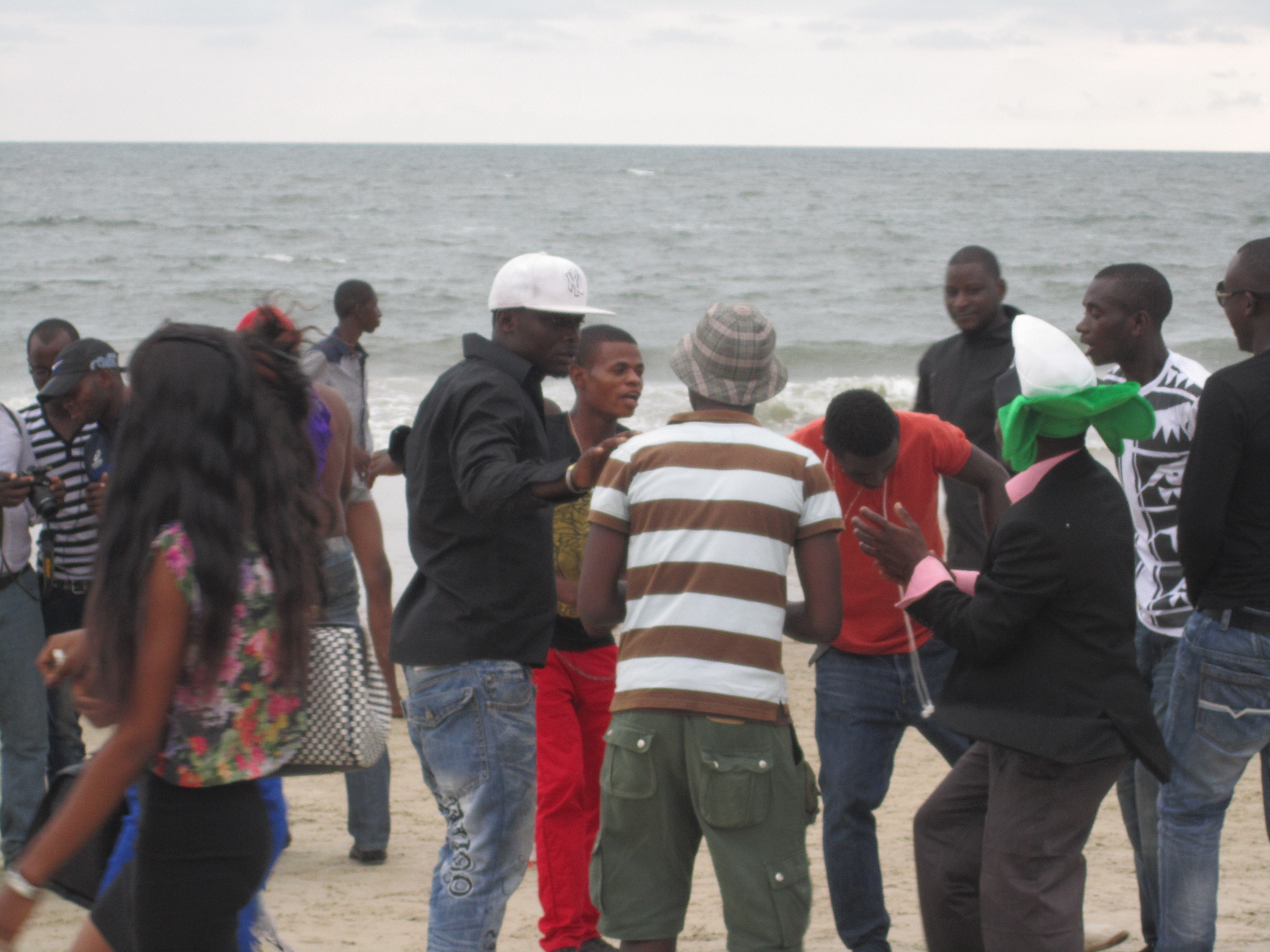 This is an image of Cultural Fashion or Adornment from Gabon